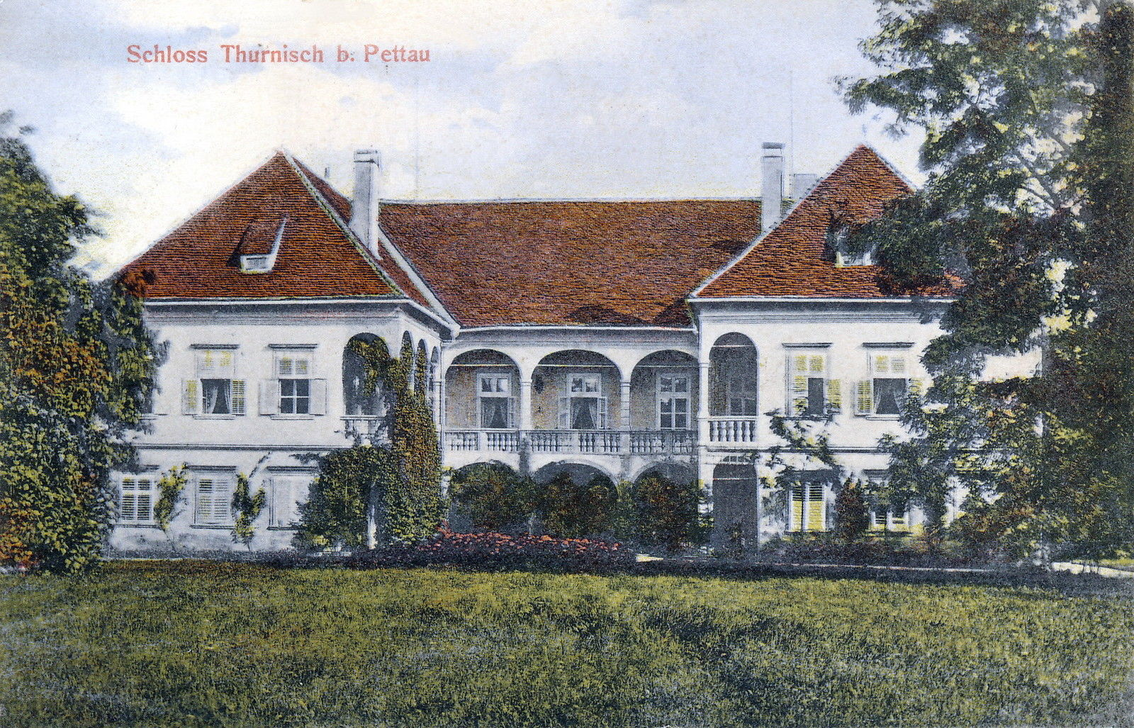 Postcard of Turnišče Castle.